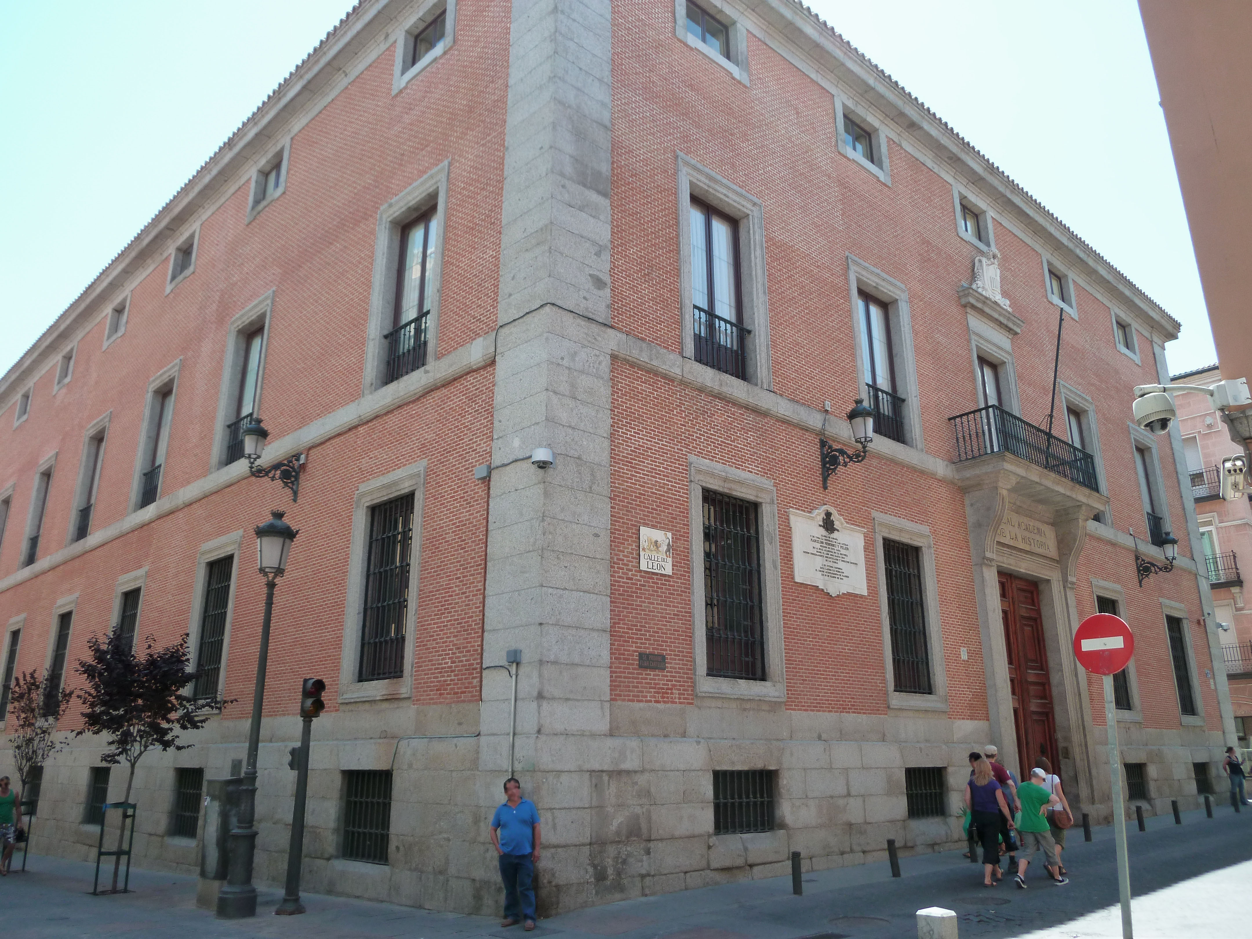 Former Nuevo Rezado in Madrid, home of the Spanish Royal Academy of History.